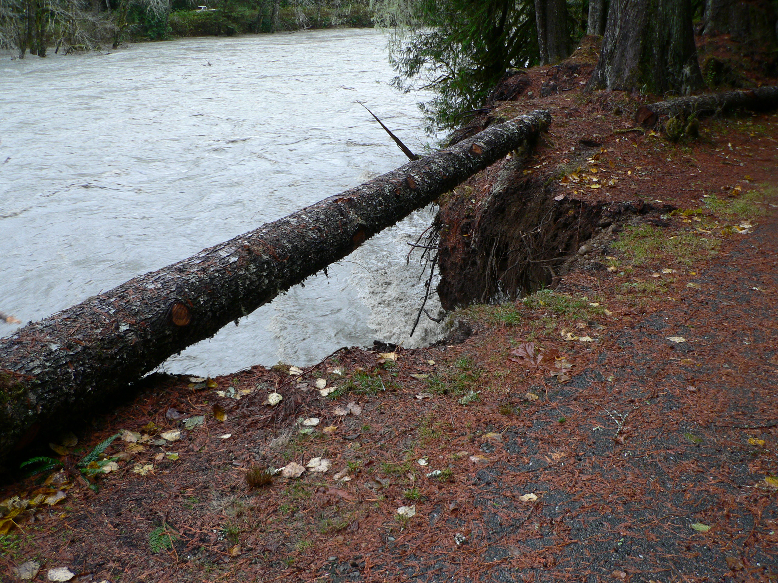 Stillaguamish River (south fork), floodwater encroaching on road shoulder, bank extended beyond log barrier at 13:33, 35 minutes earlier, 9 feet above flood stage